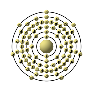 This is a part of a series of drawings of the individual elements electron configuration: Each diagram shows the electron shells with the number of electrons, and furthermore, each electron bears a letter "s", "p", "d" or "f" which shows the orbital electrons belong. This drawing depicts electron configuration in a atom: The big ball in the middle depicts the nucleus, and the little balls are electrons. The color on the big ball in the middle is green for non-metals, blue for the noble gases, violet for actinoids, purple pink for transition metals, red alkali metals, gray for "Other metals", yellow for halogens, orange for the alkaline earth metal arts and brown for half metals.